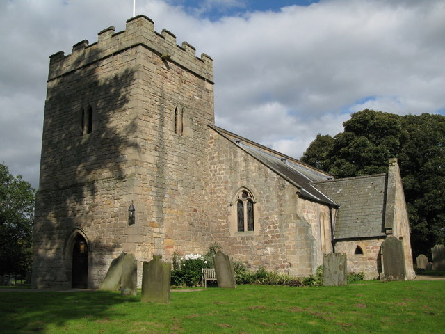 Bywell St. Peter In the Middle Ages, Bywell was an important settlement with flourishing local industry and there were two baronies, Baliol and Bolbec, adjoining each other. The parish of St. Peter was associated with the Baliol lands, and that of St. Andrew with Bolbec. The parish of St. Peter was ceded to the Benedictine house at Durham in 1174 and was consequently known as the "black church" from the colour of the Benedictine habit. St. Andrew's, the "white church", was in the gift of the Praemonstratentian or white canons of Blanchland. {Source: Leaflet "Welcome to Bywell".}